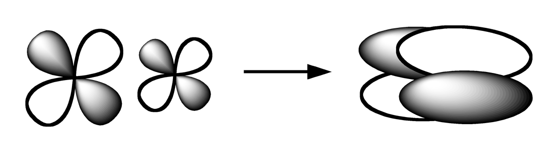 Boundary surface diagram of the formation of a delta bond (bonding molecular orbital with δ symmetry) from two d orbitals